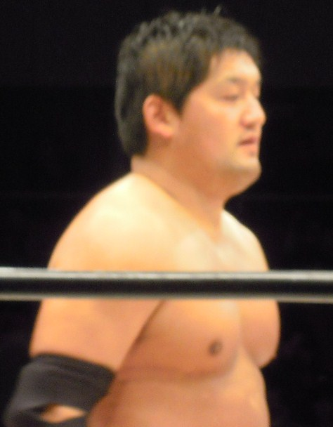 Japanese professional wrestler,Shuji Ishikawa. May 28 2010, BJW Korakuen Hall.